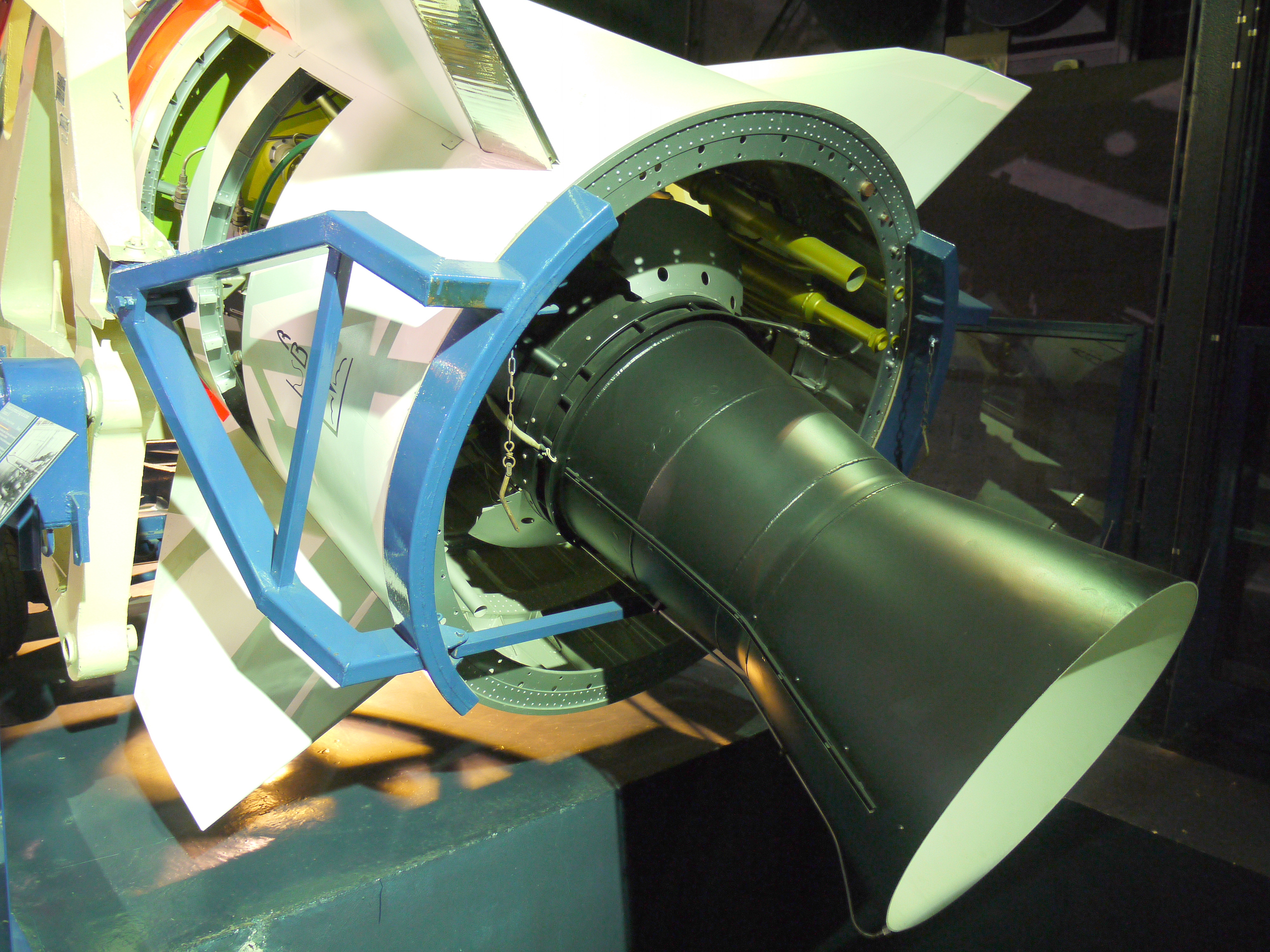 Diamant rocket, Museum of Air and Space Paris, Le Bourget (France)